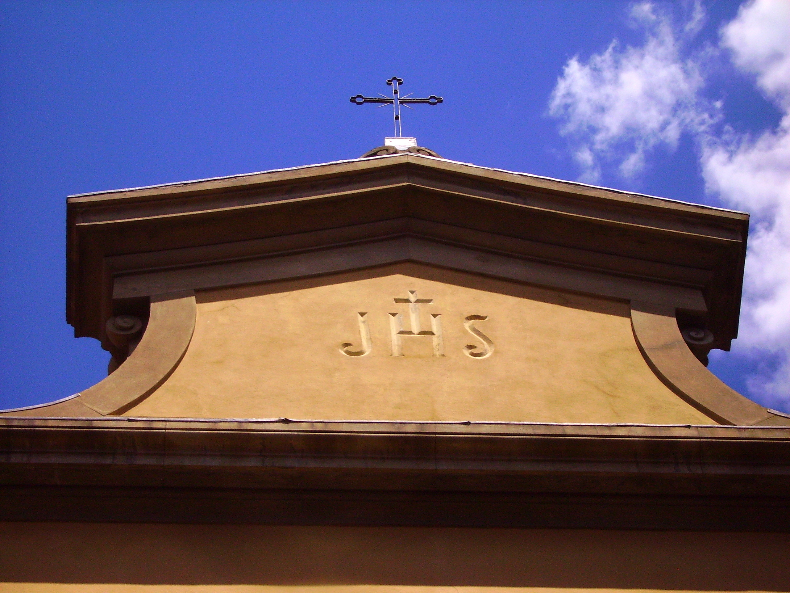 Façade of Redeemer Church in Montevarchi